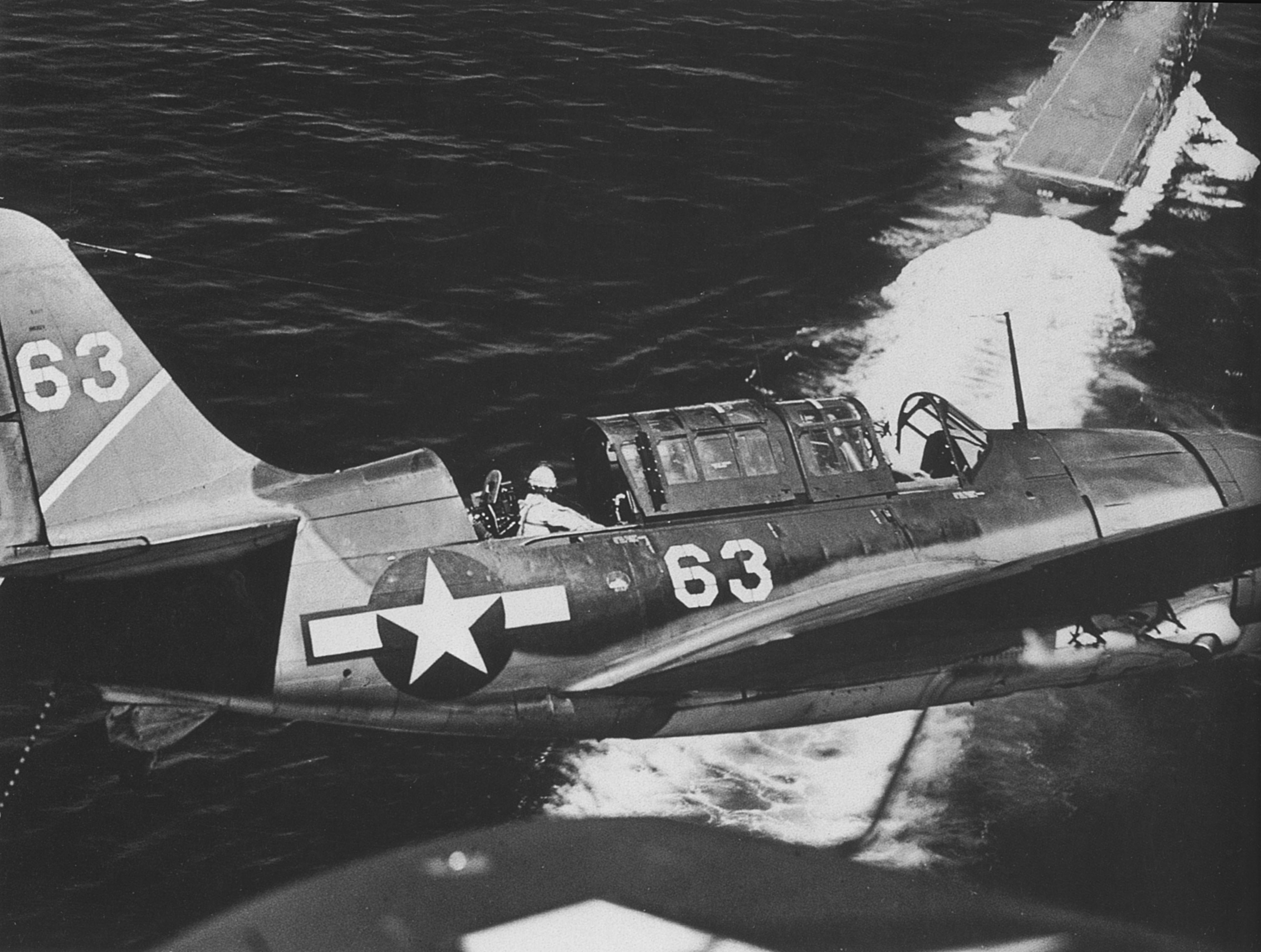 Two U.S. Navy Curtiss SB2C Helldiver dive bombers of bombing squadron VB-1 in the landing circle of the aircraft carrier USS Yorktown (CV-10) in July 1944.